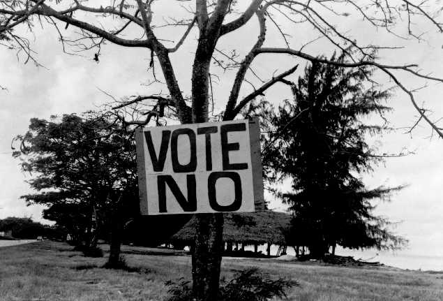 Vote No sign, Marianas District Covenant campaign